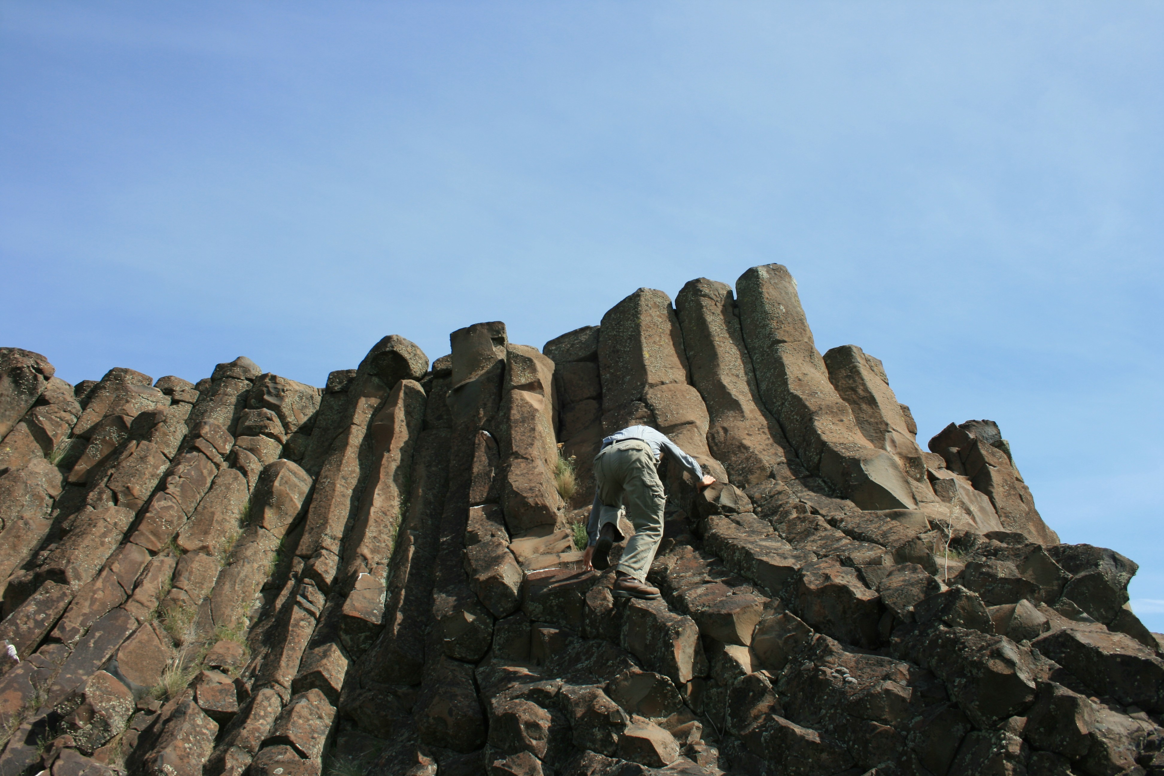 Fan basalt structure in Drumheller Channels National Natural Landmark in washington state. Not a great example, but the best I've currently got.